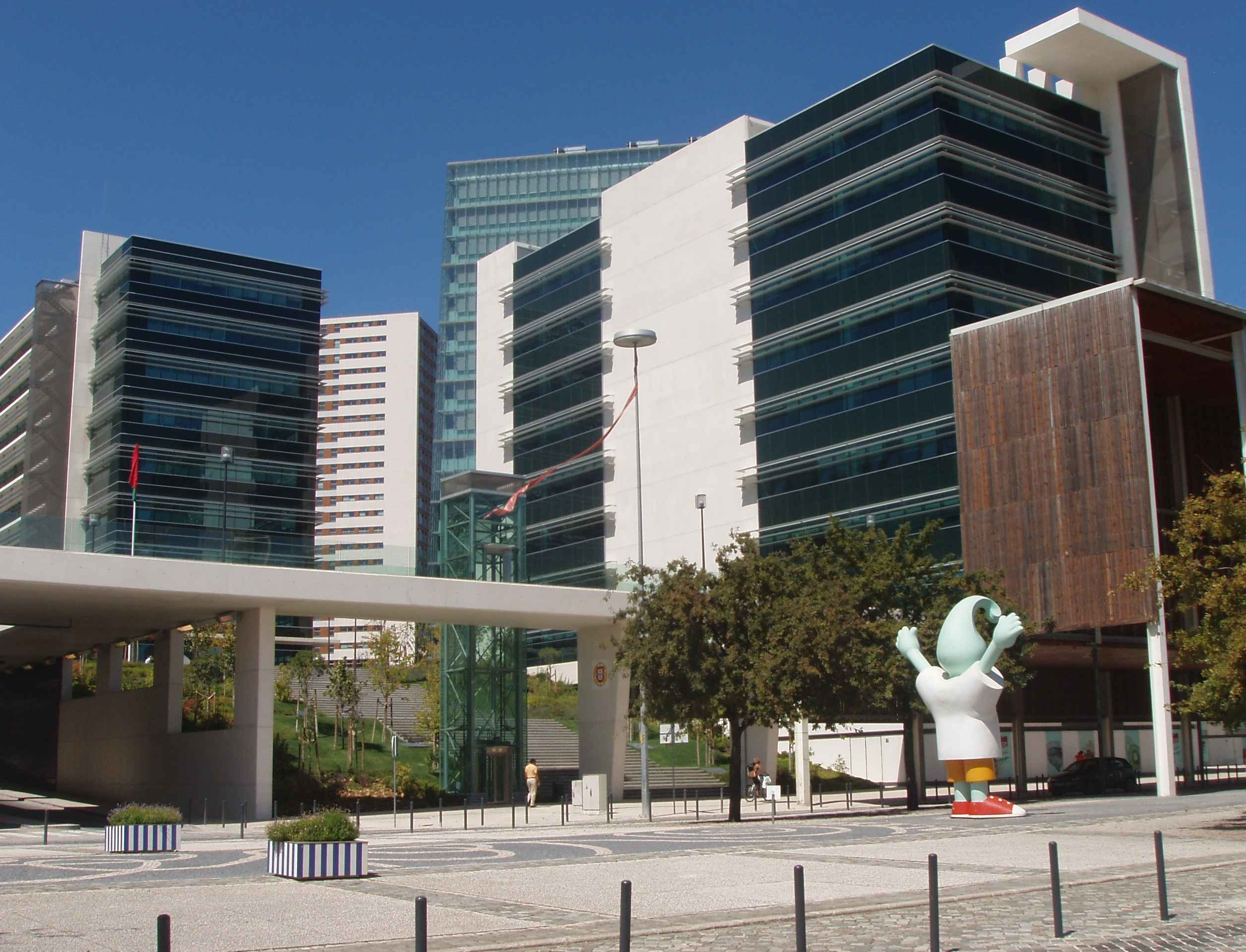 Parque dos Nacioes, in Lisboa (where Expo 98 took place). High-rise building from the right: Campus de Justiça, Edificio I [1], Edificio Praça do Venturoso [2], Panoramic Apartementos 1 [3], Campus de Justiça, Edificio J [4].